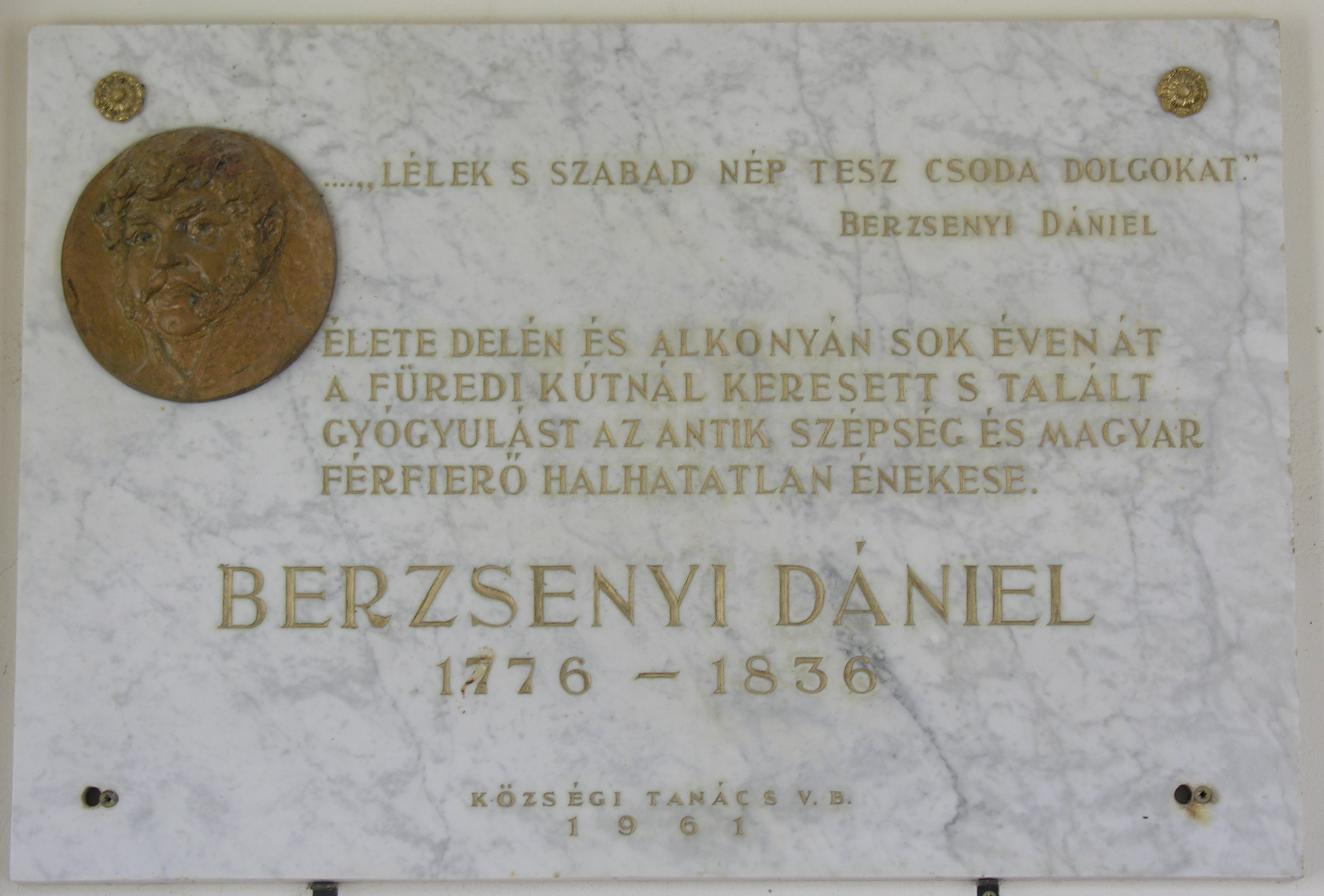 Commemorative plaque of Dániel Berzsenyi in Balatonfüred, Gyógy Square No 1